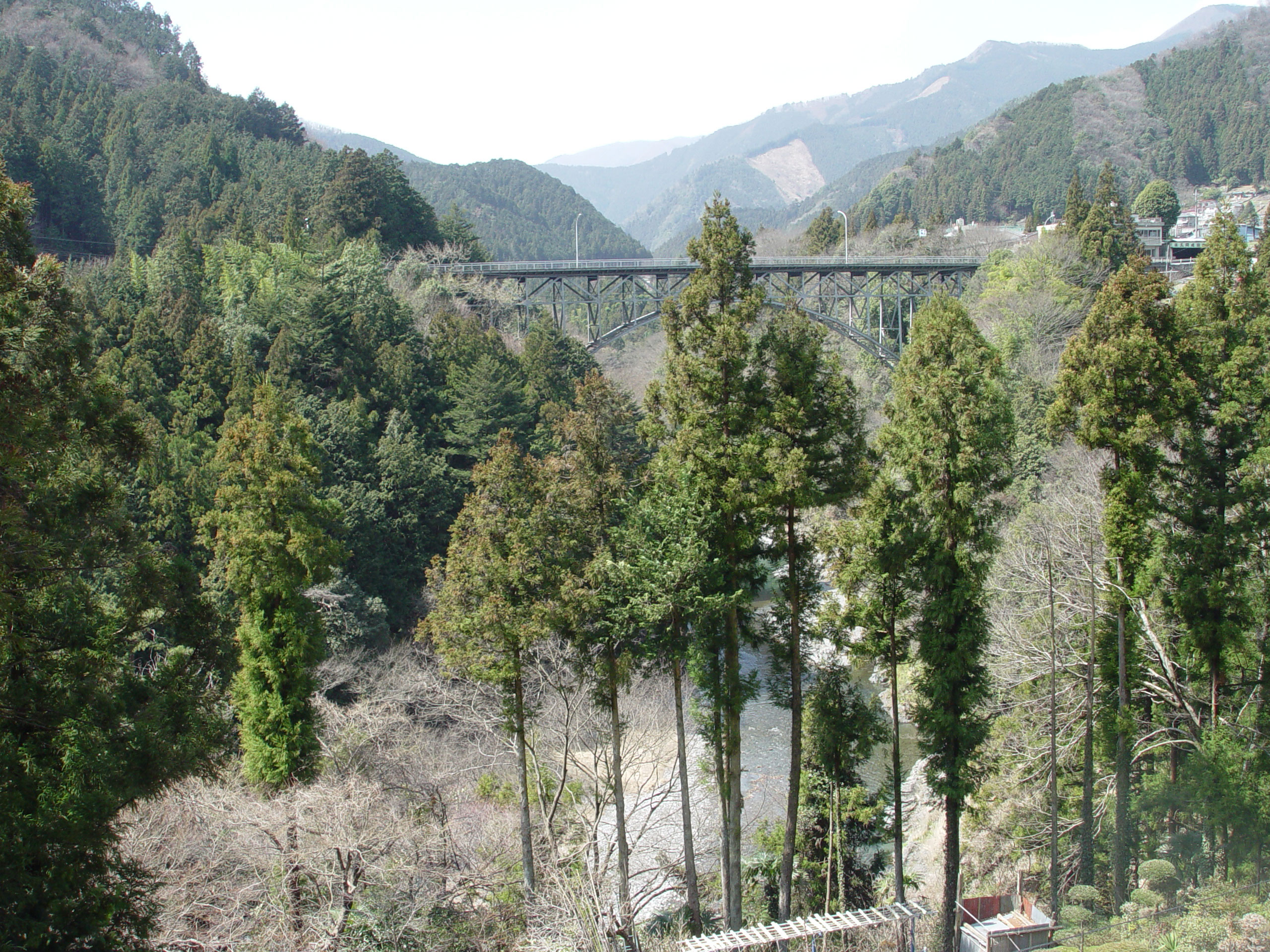 Mansei Bridge, Tokyo prefectural road route 45 ja: 奥多摩町万世橋。多摩川、東京都道45号奥多摩青梅線